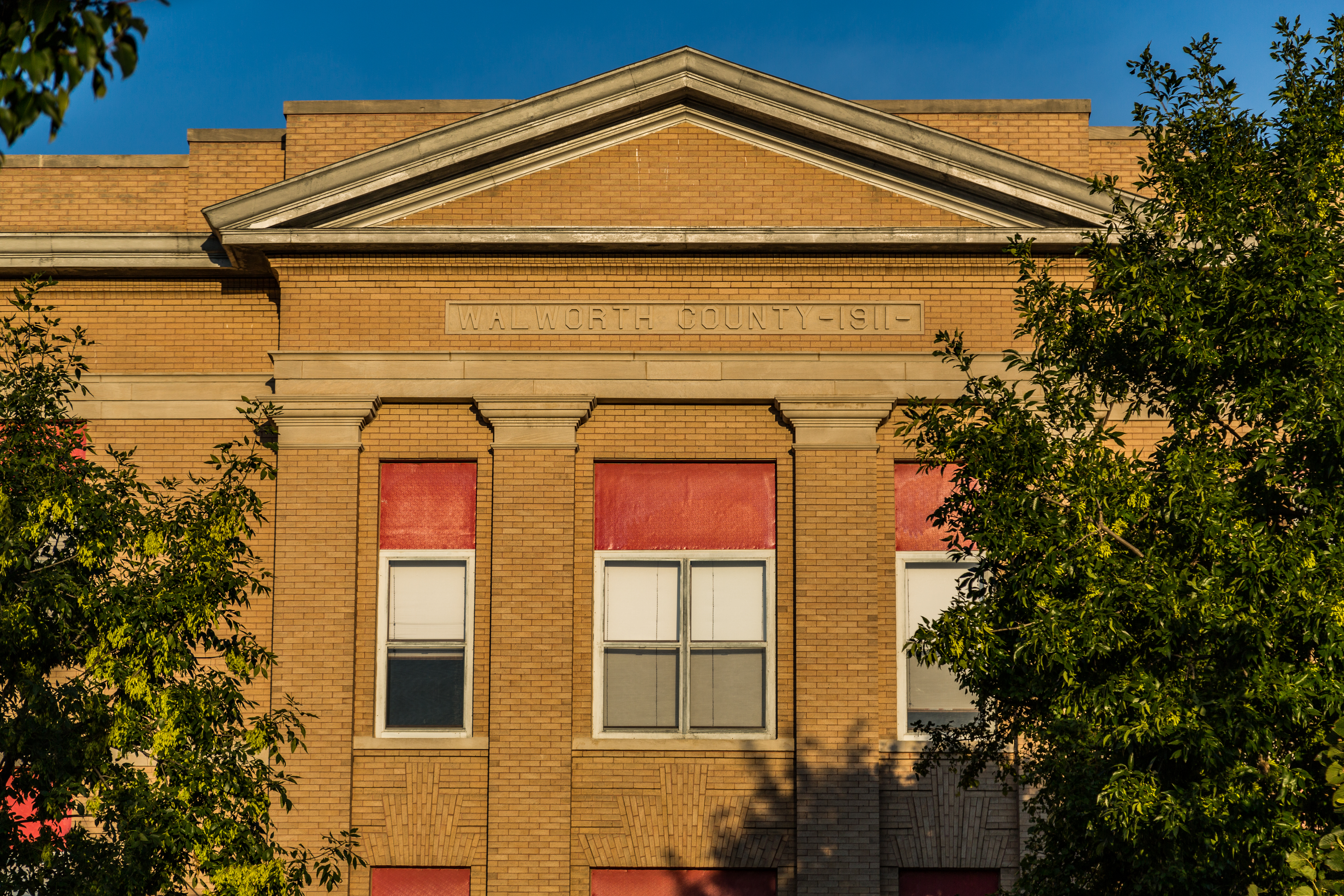 Walworth County building (1911) near 4th Avenue and Scranton Street in Selby, South Dakota.